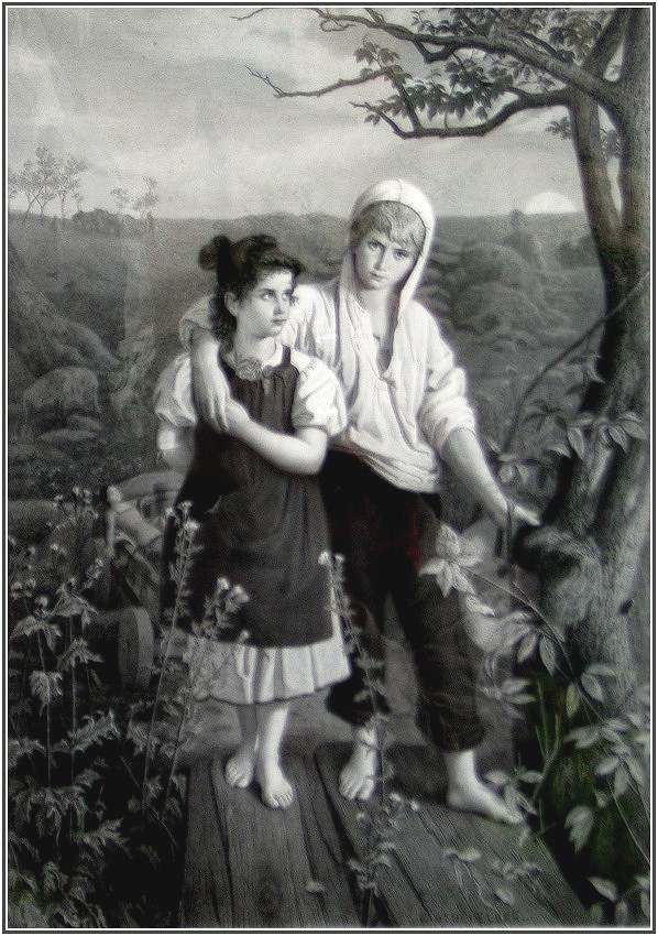 Scene from Gottfried Keller's "A Village Romeo and Juliet". Original: oil on canvas 190x130 cm. Engraving 402x286 mm by Franz Dinger